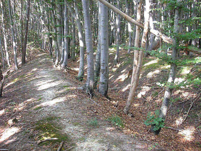 Early Middle Ages hill fort "Burg" between Unterfinning and Windach (Landkreis Landsberg am Lech, Upper Bavaria, Germany). South western part of the central earthworks, looking north